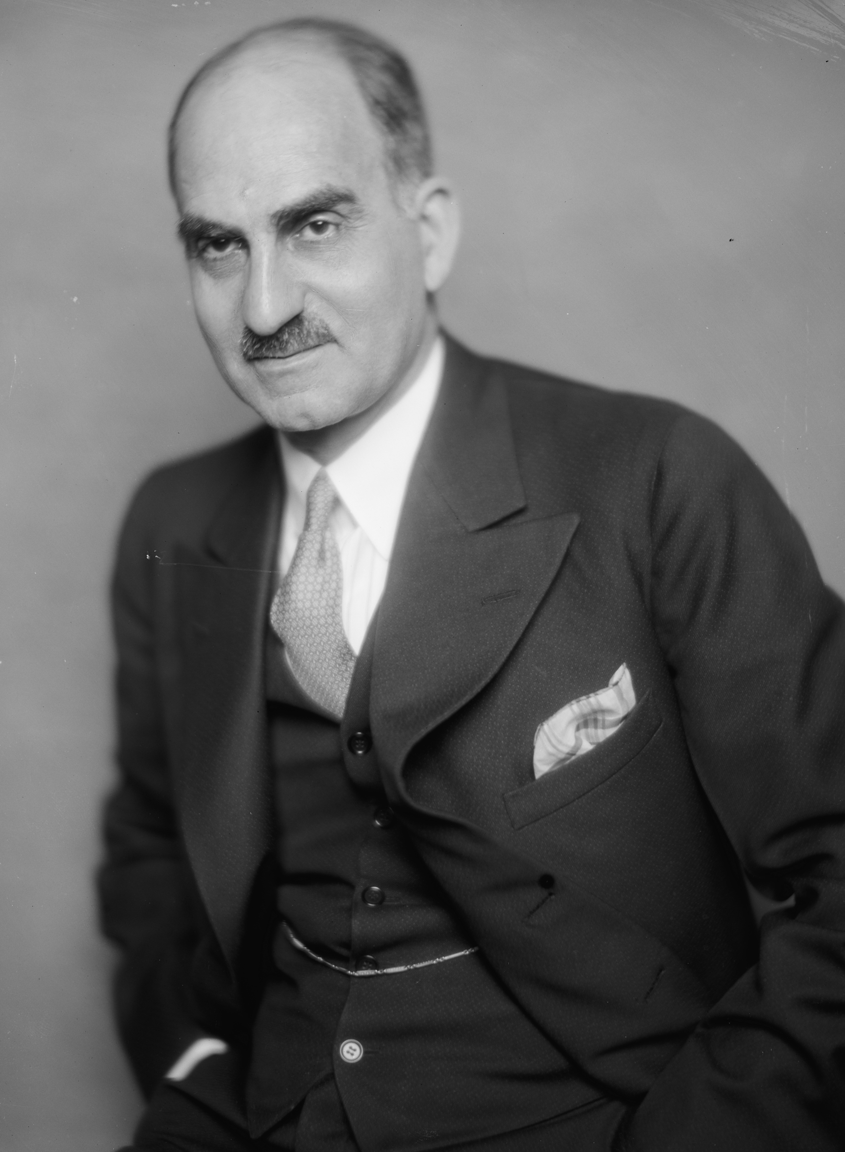 Peter Angelo Cavicchia, US Representative from New Jersey